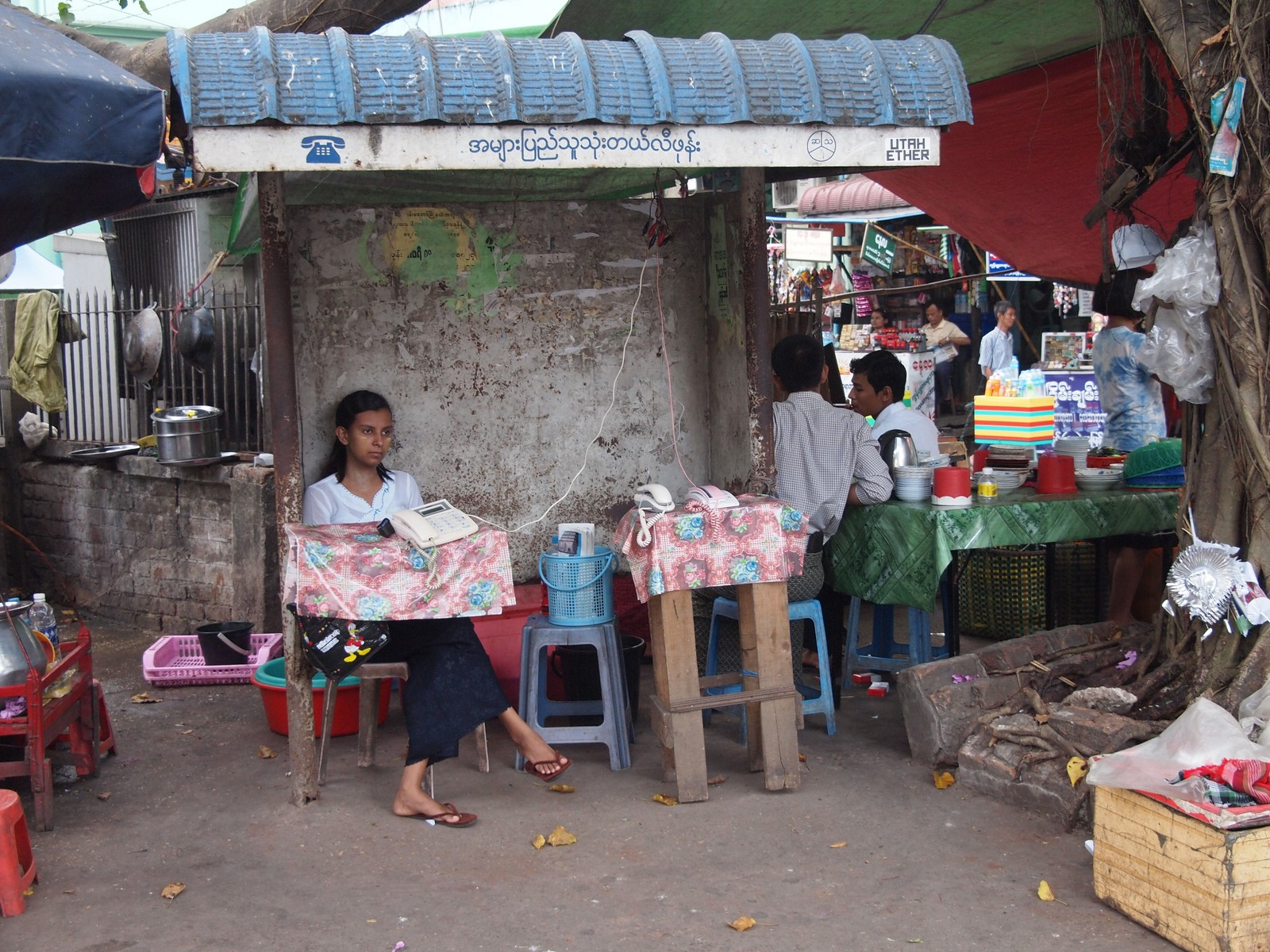 Street telephone post in Yangon. A private telephone line used by Myanmar people instead of a telephone booth.